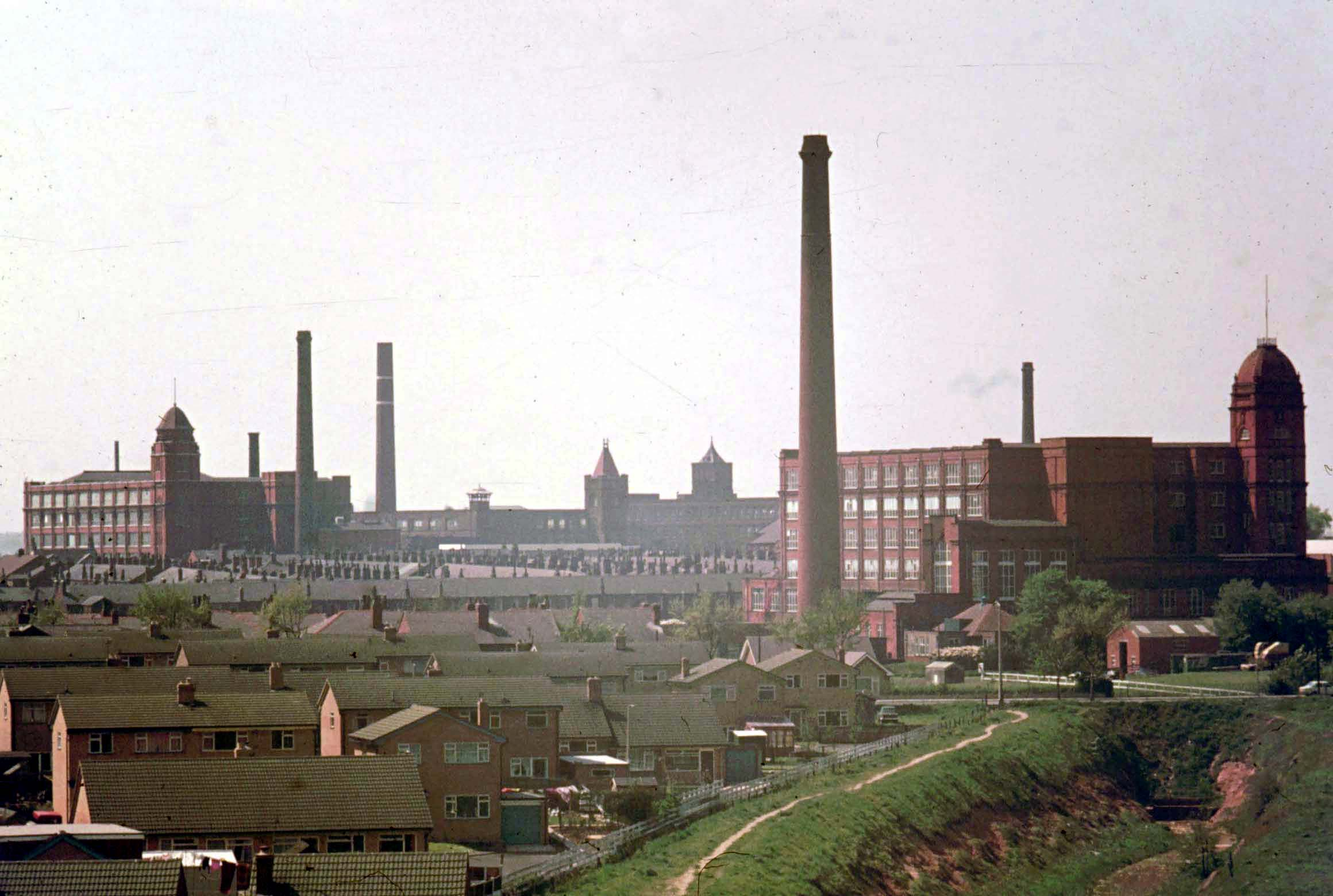 Mills in Leigh, 1974 Taken from slightly raised land (old mine waste) at the end of Wash Lane and looking across relatively new housing between Wash Lane and Holden Road towards two of the giant mills which used to characterise Leigh. From left to right they were (I think and am quite happy to be corrected!) Bedford Mill and Mill Lane Mill. In between were Mather Lane Mills, one of which is still standing.